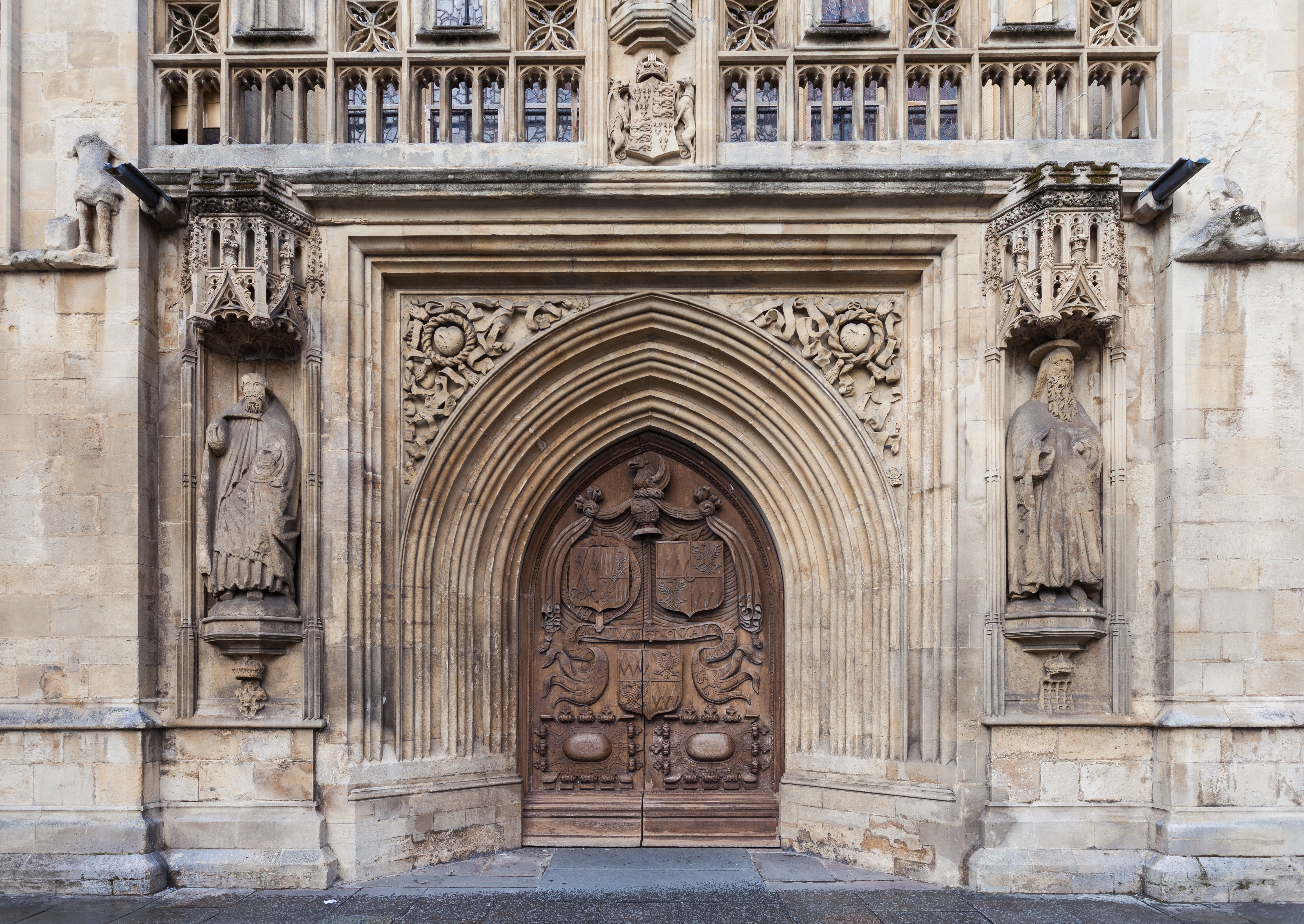 Bath Abbey, Bath, England